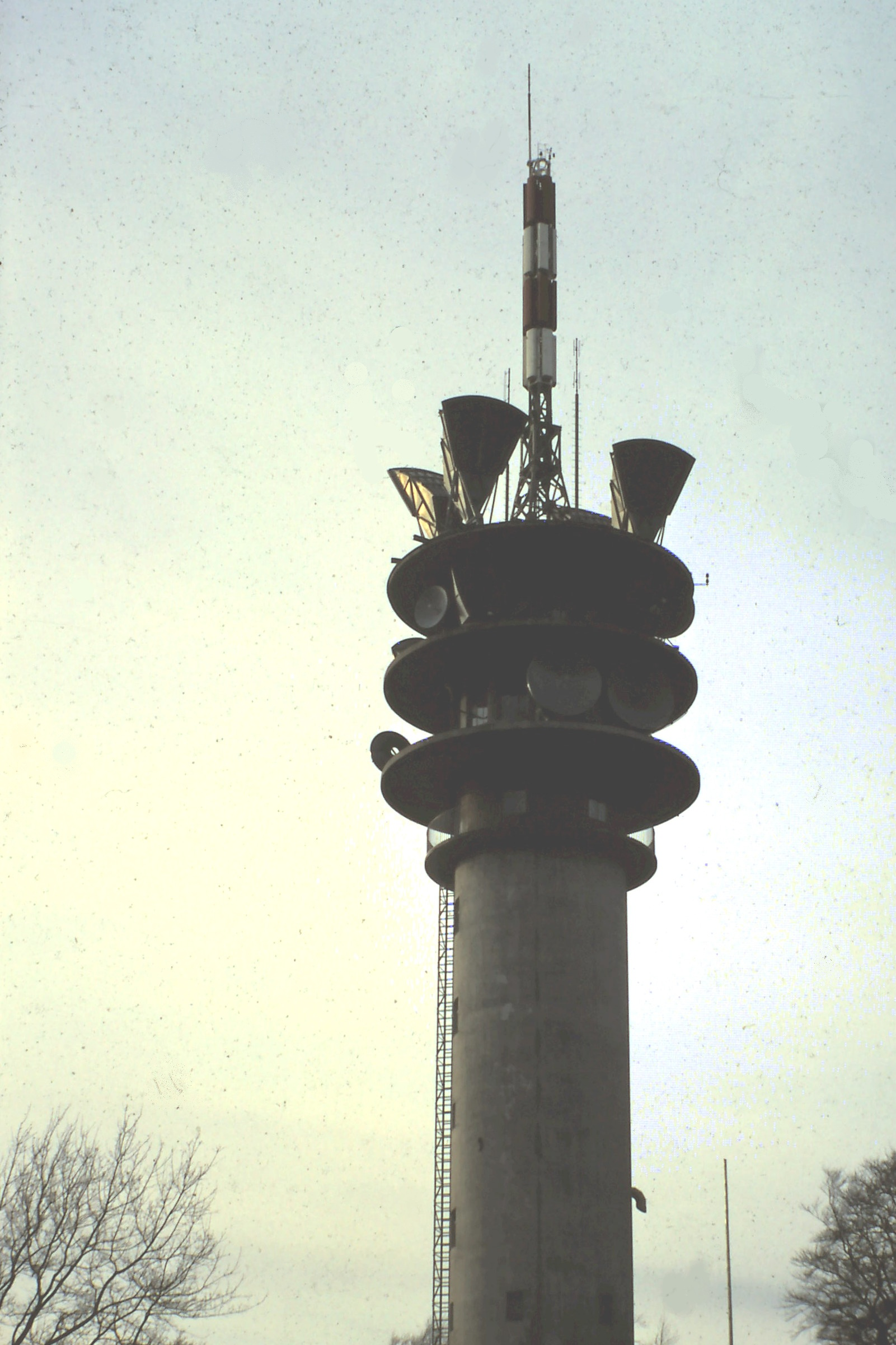 The old telecommunication tower (1952 bis 1974 (also named: Bismarckturm) on the Jakobsberg in Porta Westfalica, Germany (see also English Wikipedia: Porta Westfalica)